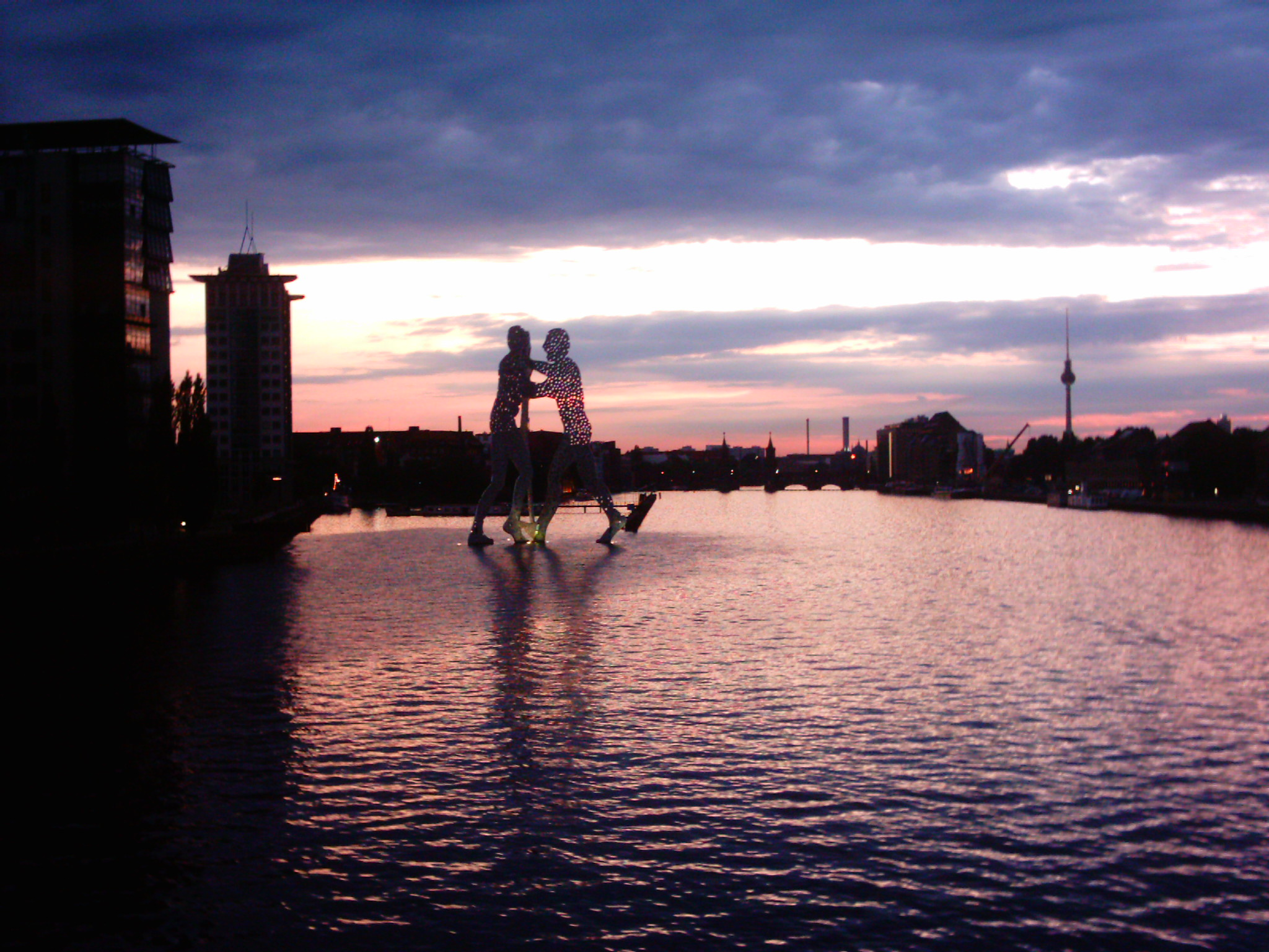 View from Elsenbrücke towards west, on the left the "Molecule man"; Berlin, Germany